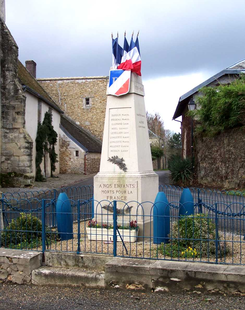 War memorial of Autouillet (Yvelines, France)